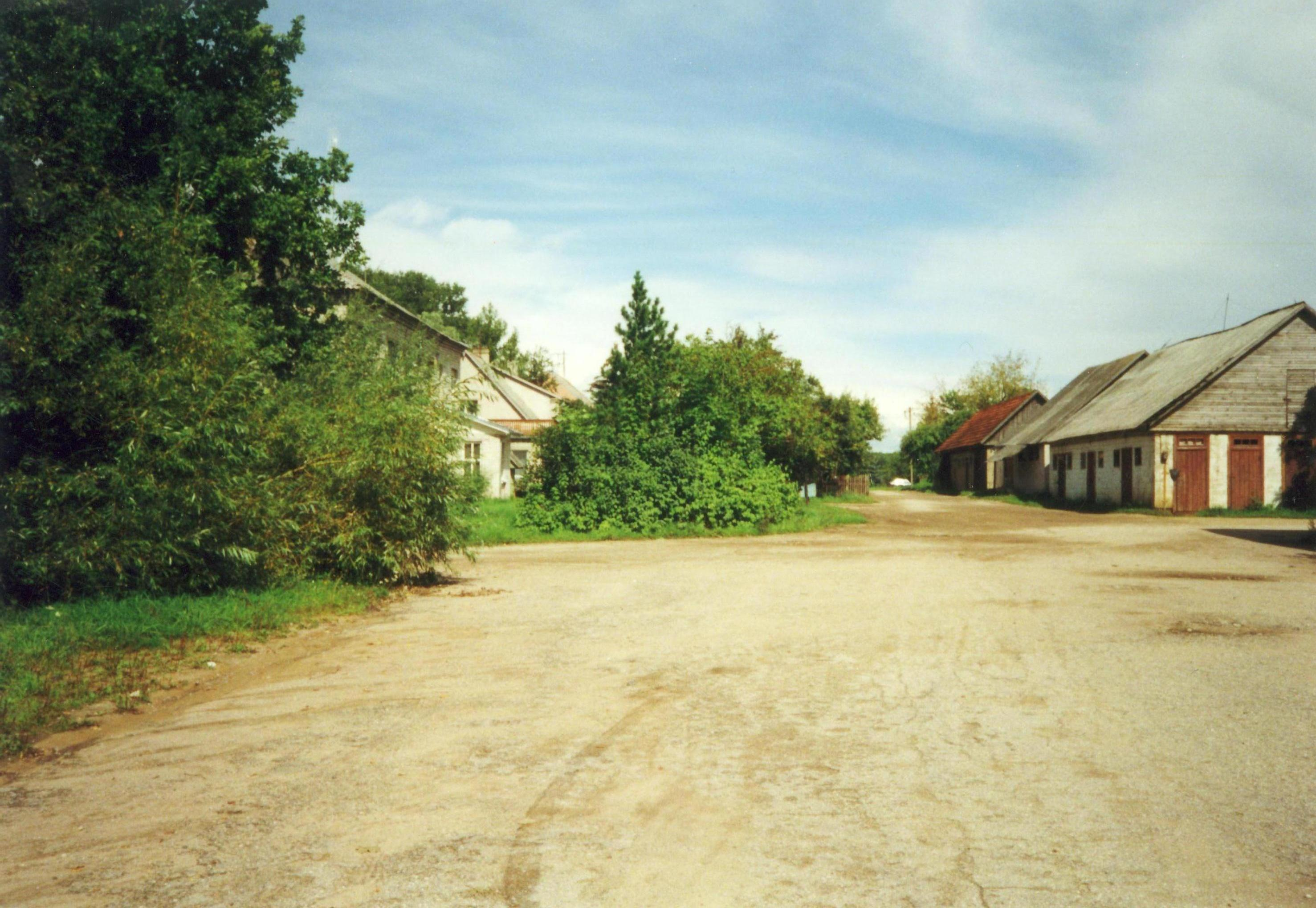 M/U gyvenvietė, Jonava